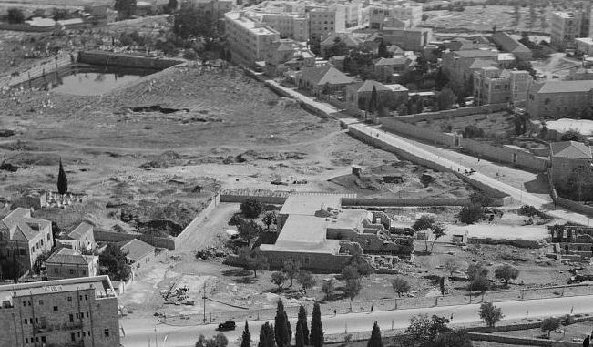 Aerial view, Jerusalem: Rehavia neighborhood and Mamilla Cemetery and Pool, viewed from west. ruins of redemption hotel, aka "house of the 144.000" built by Jeanne Merkus.